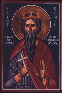 Icon of Saint Oswin